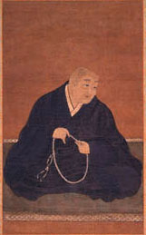 Undated portrait of Honen Shonin